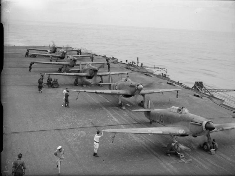 The Royal Navy during the Second World War Six Hawker Sea Hurricanes of 885 Squadron, Fleet Air Arm with their engines running, ranged on the deck of HMS VICTORIOUS. All are ready to take off the moment an enemy aircraft is spotted.